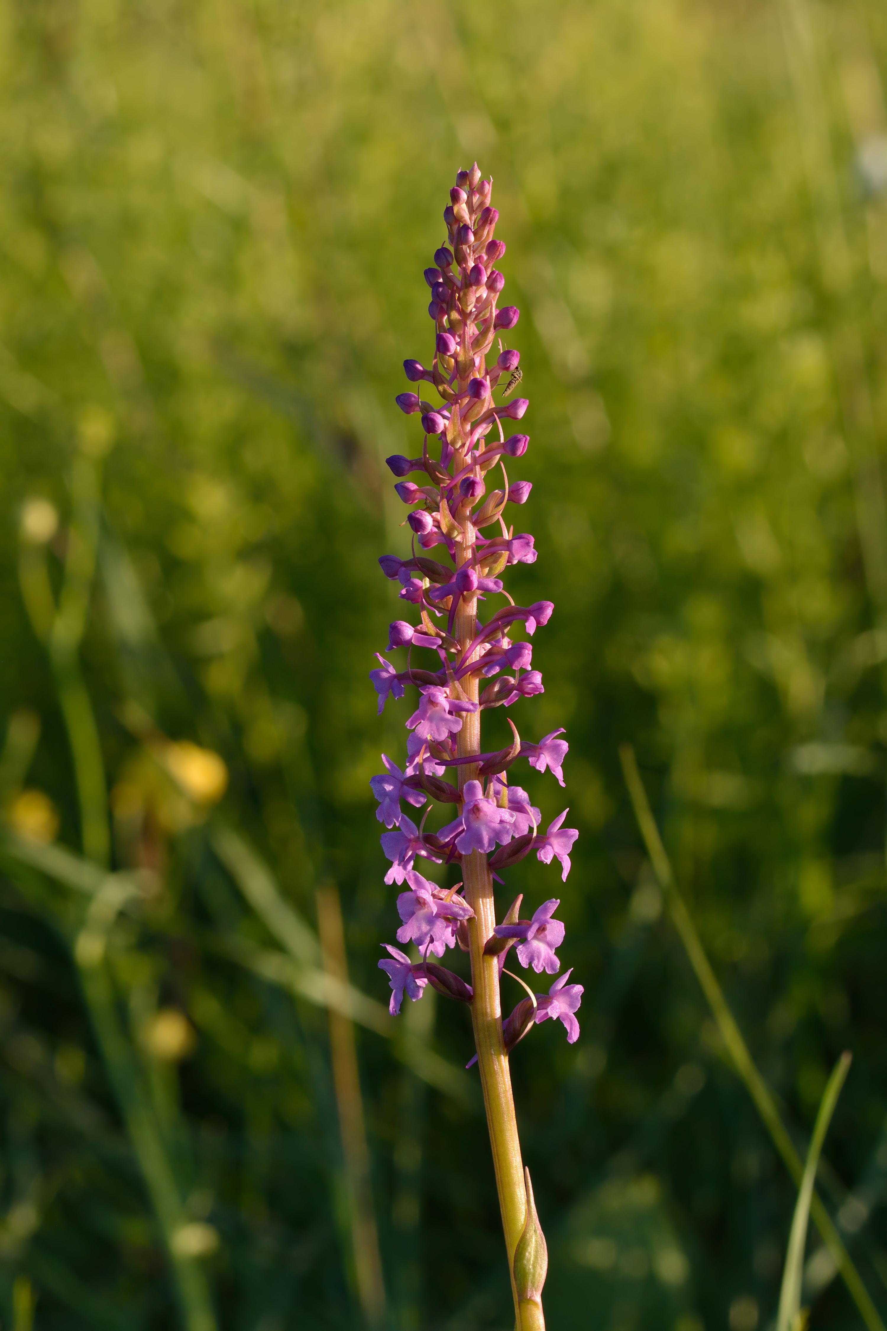 Fragrant orchid (Gymnadenia conopsea). Natural habitat (Alvar) in Keila, Northwestern Estonia. It belongs to the category III of protected species in the country.